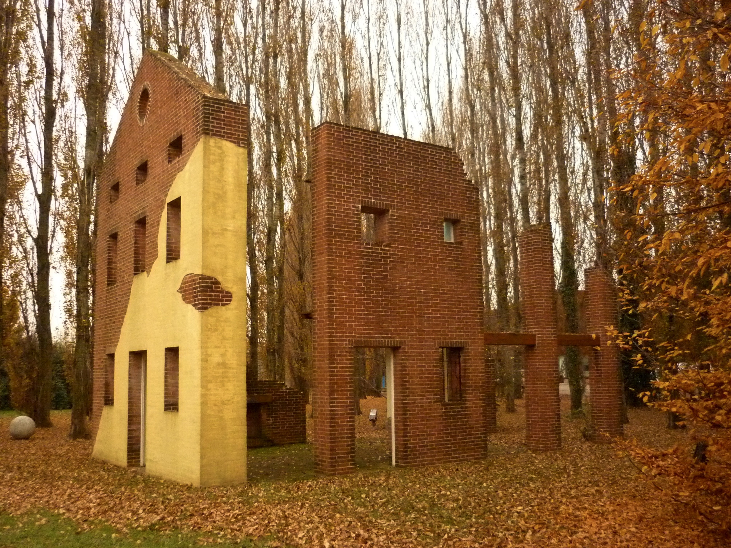 Parco della Scultura in Architettura, San Donà di Piave (Venice), Italy